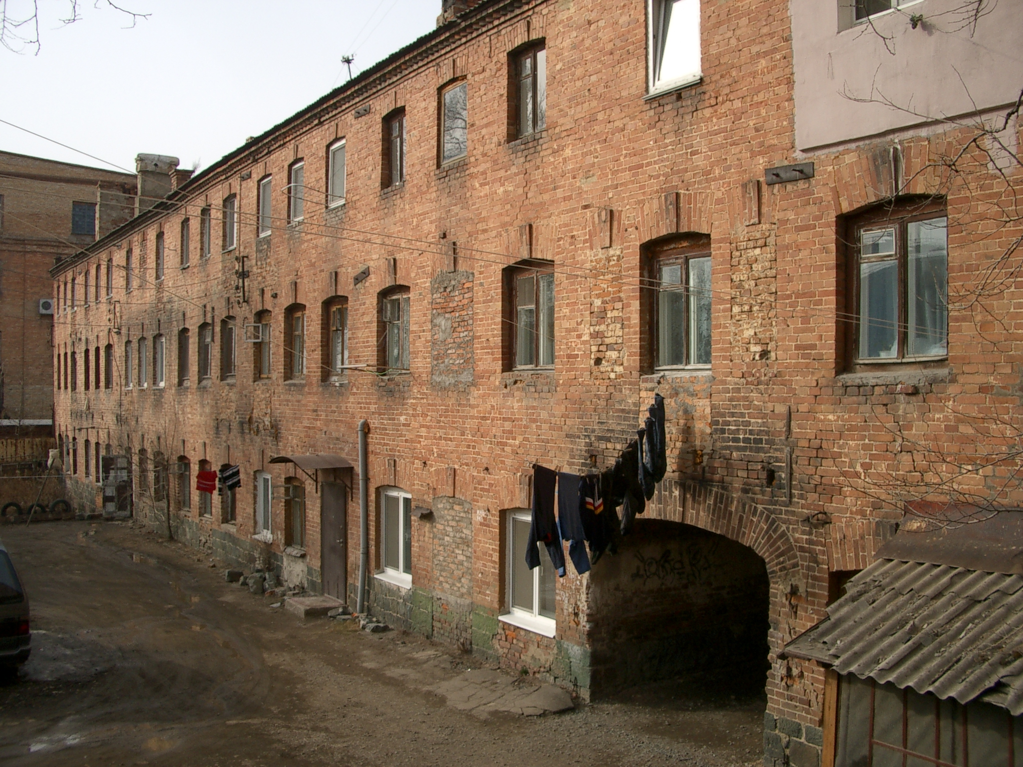 "House of Lee Qi Zeen"(Utkinskaya St.,8)-part of former Millionka in Vladivostok, Russia. Historically, Millionka was the local china-town and the biggest center of crime activity. "House of Lee Qi Zeen" (named after owner) was a cheap doss-house, closed by the city government on May,16th,1936.